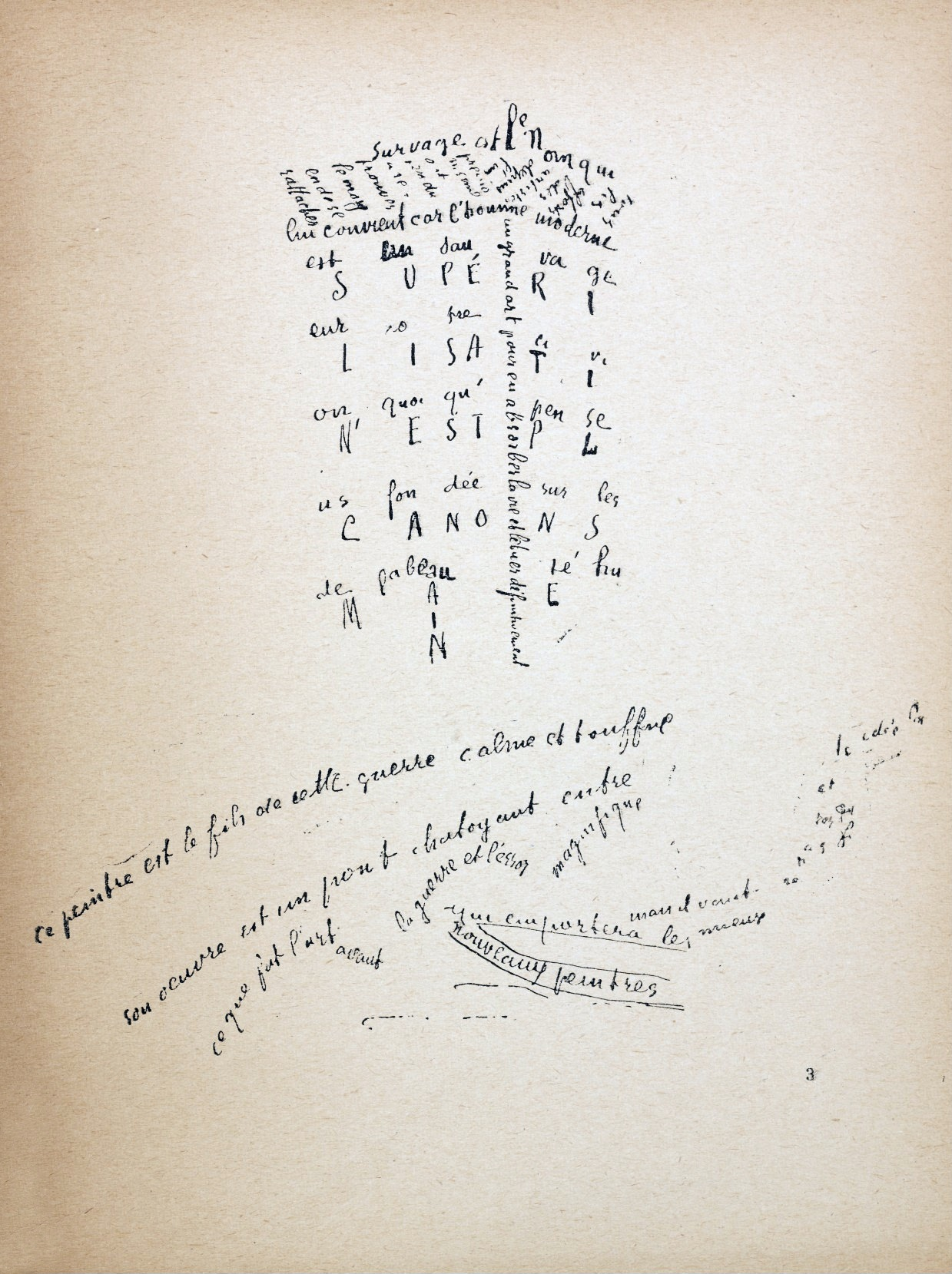 Guillaume Apollinaire (1880–1918), Calligram